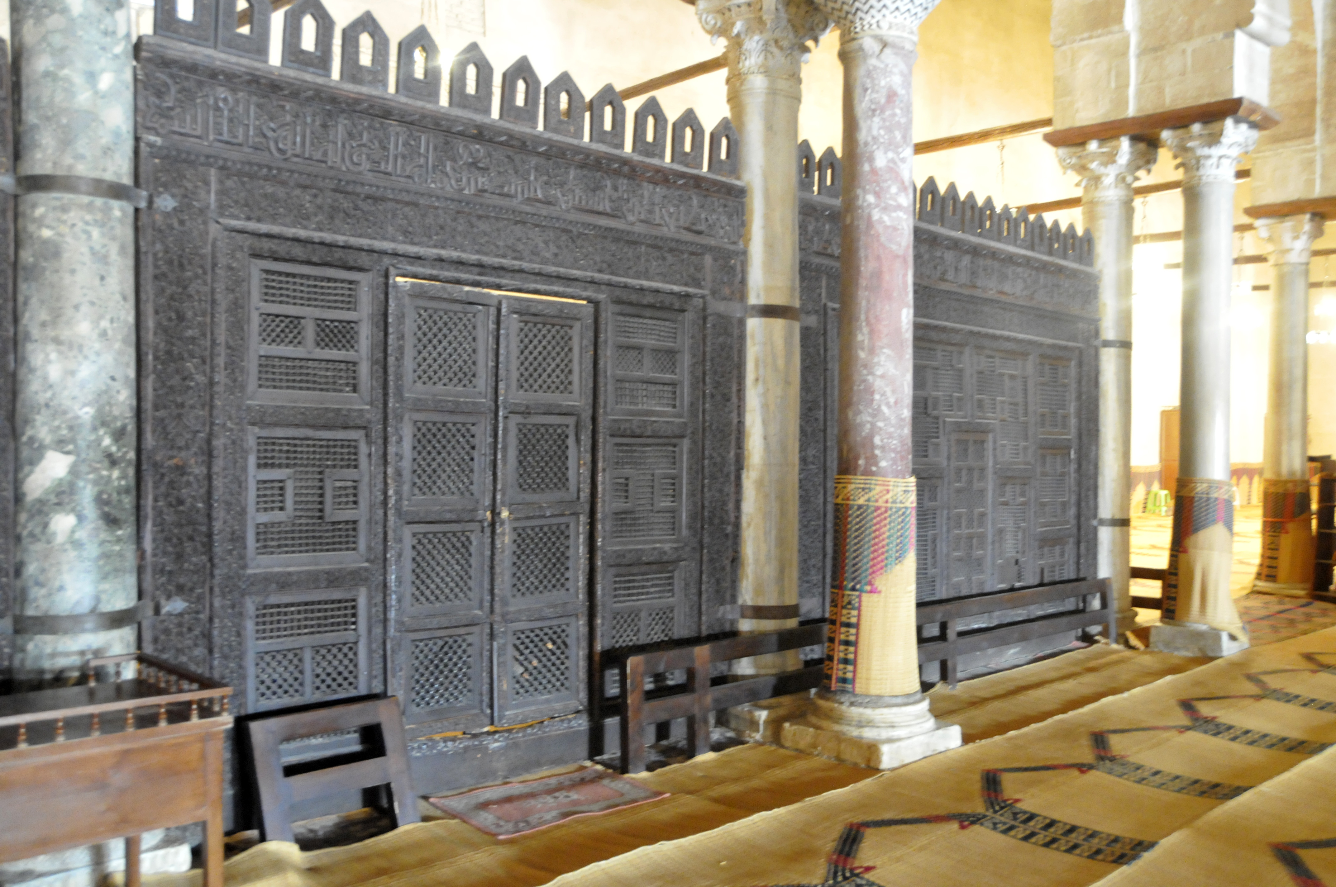 View of the Maqsura — in the Prayer hall of the Great Mosque of Kairouan, Tunisia.